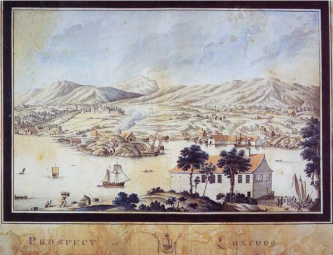 Grane shipyard in Laksevåg, Bergen, Norway. 1809.